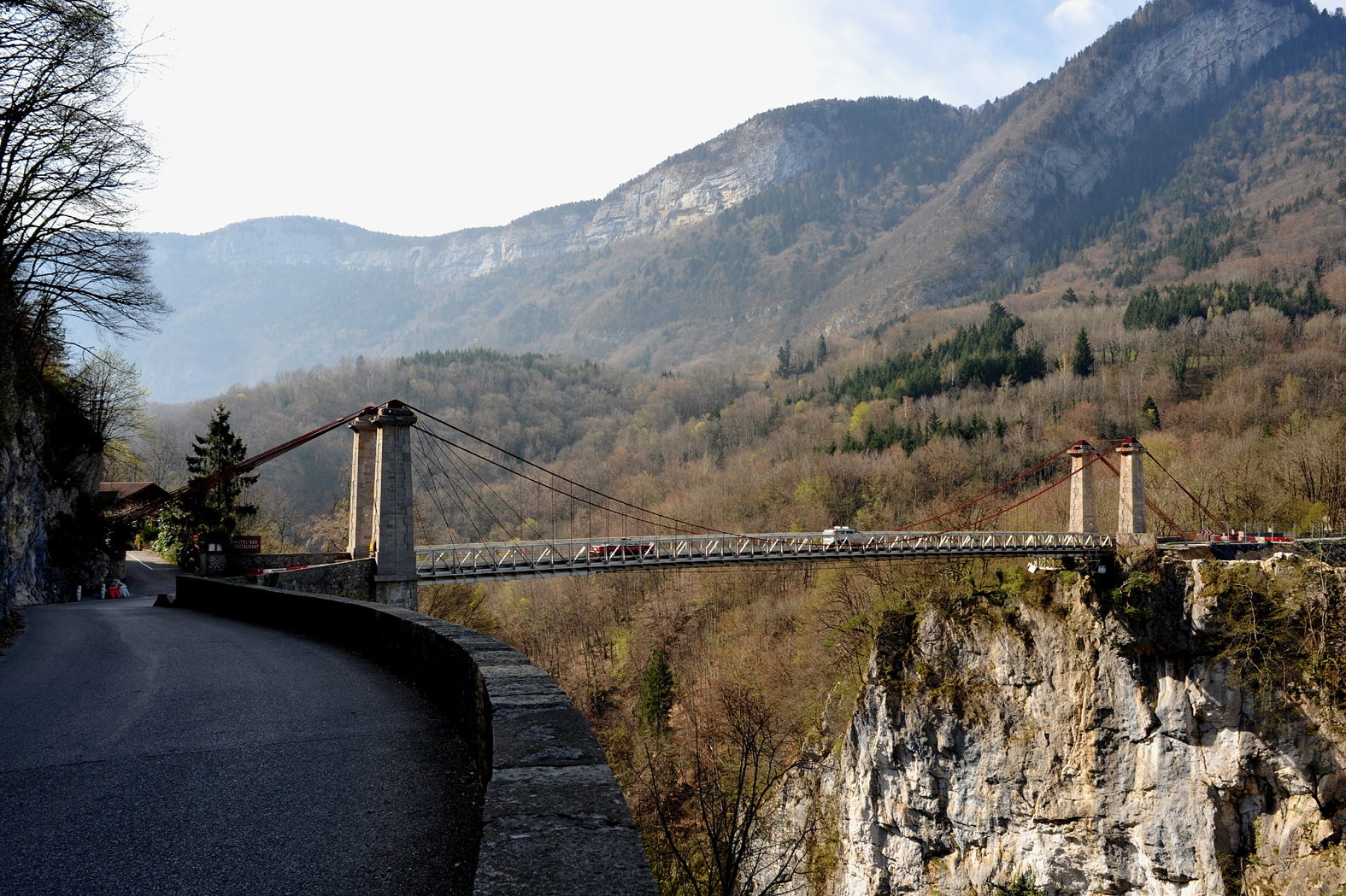 Abime bridge crossing river Chéran near Cusy; Haute-Savoie, France.